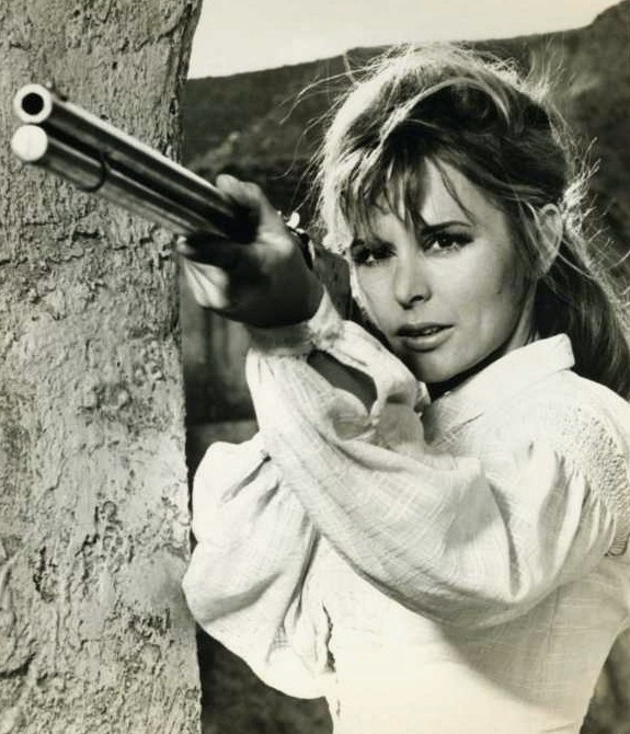 Marianna Hill in El Condor (1970) - publicity still (cropped : see source).